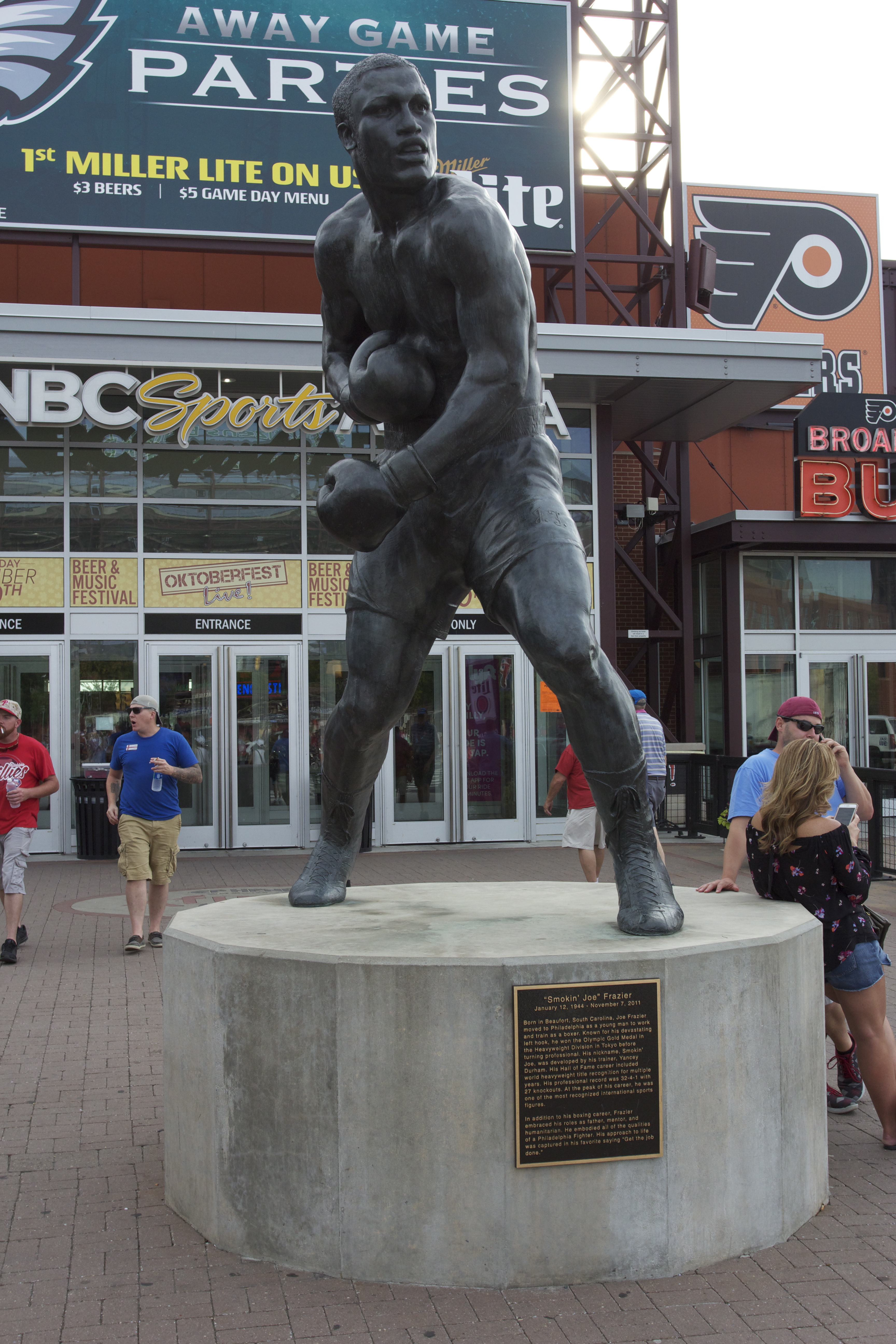 Sports statues in South Philadelphia